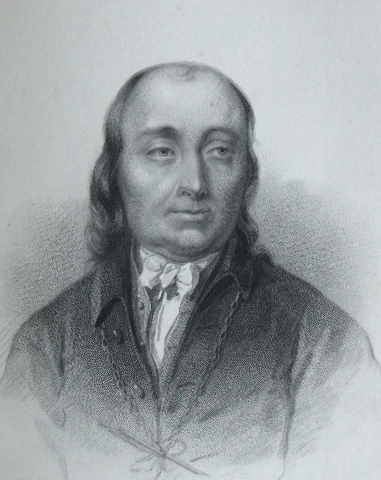 Twm o'r Nant (Thomas Edwards). 19th century engraving based on late 18th century portrait of the Welsh-language dramatist and poet. Published in Ceinion Llenyddiaeth Gymreig, by Owen Jones (1876).